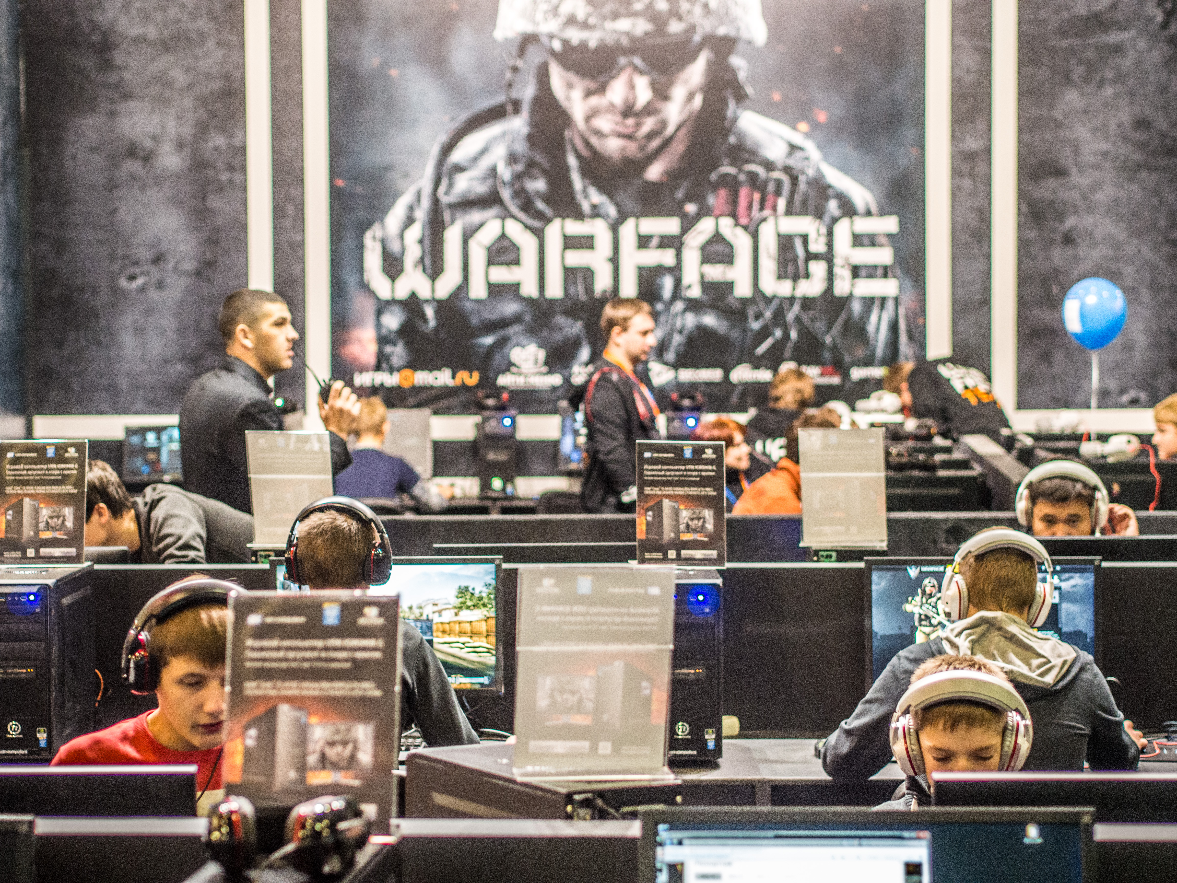 Russian gaming expo